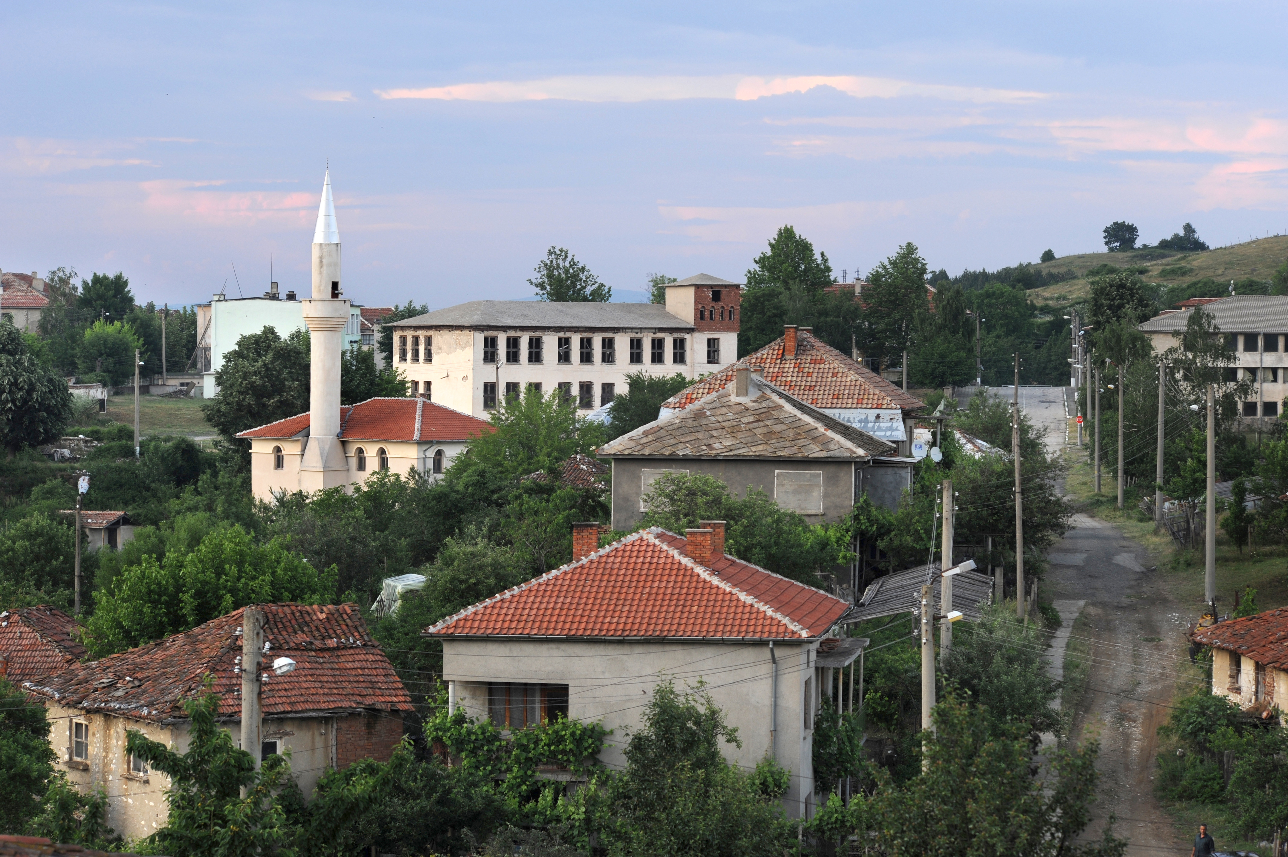 View of the city of Avren (Kardzhali province), Bulgaria.